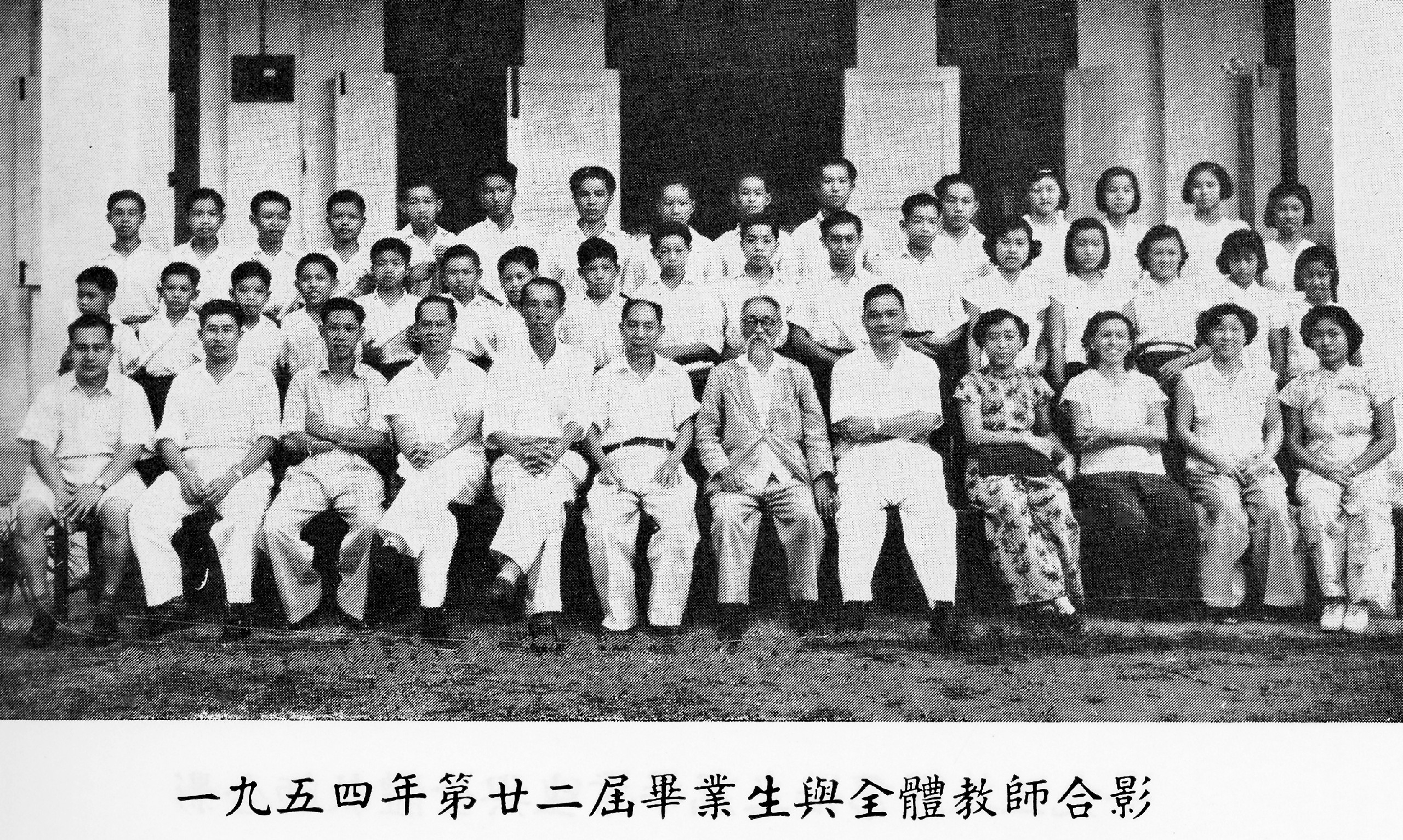 Seok Kim at Students' Graduation, 1954 (Seok Kim seated in suite, 7th from left; Gong Kar Hin 8th); Book: No Other Way Out - A Biography of Ong Seok Kim. PJ, Malaysia; Authors: Wang Jianshi, Ong Eng-Joo; Publisher: Strategic Information and Research Development Centre, 2013; Site